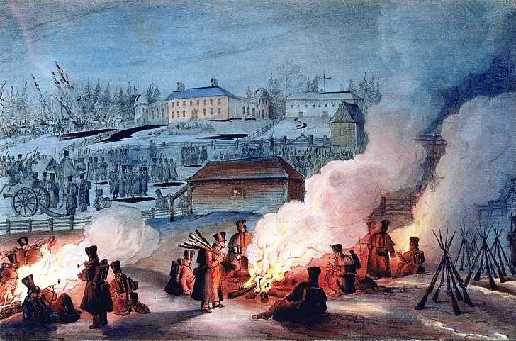 Print, Col. Wetherall's bivouack at St. Hilaire de Rouville, 1840, Lord Charles Beauclerk (1813-1842), Ink and watercolour on paper - Lithography - 26.5 x 36.6 cm